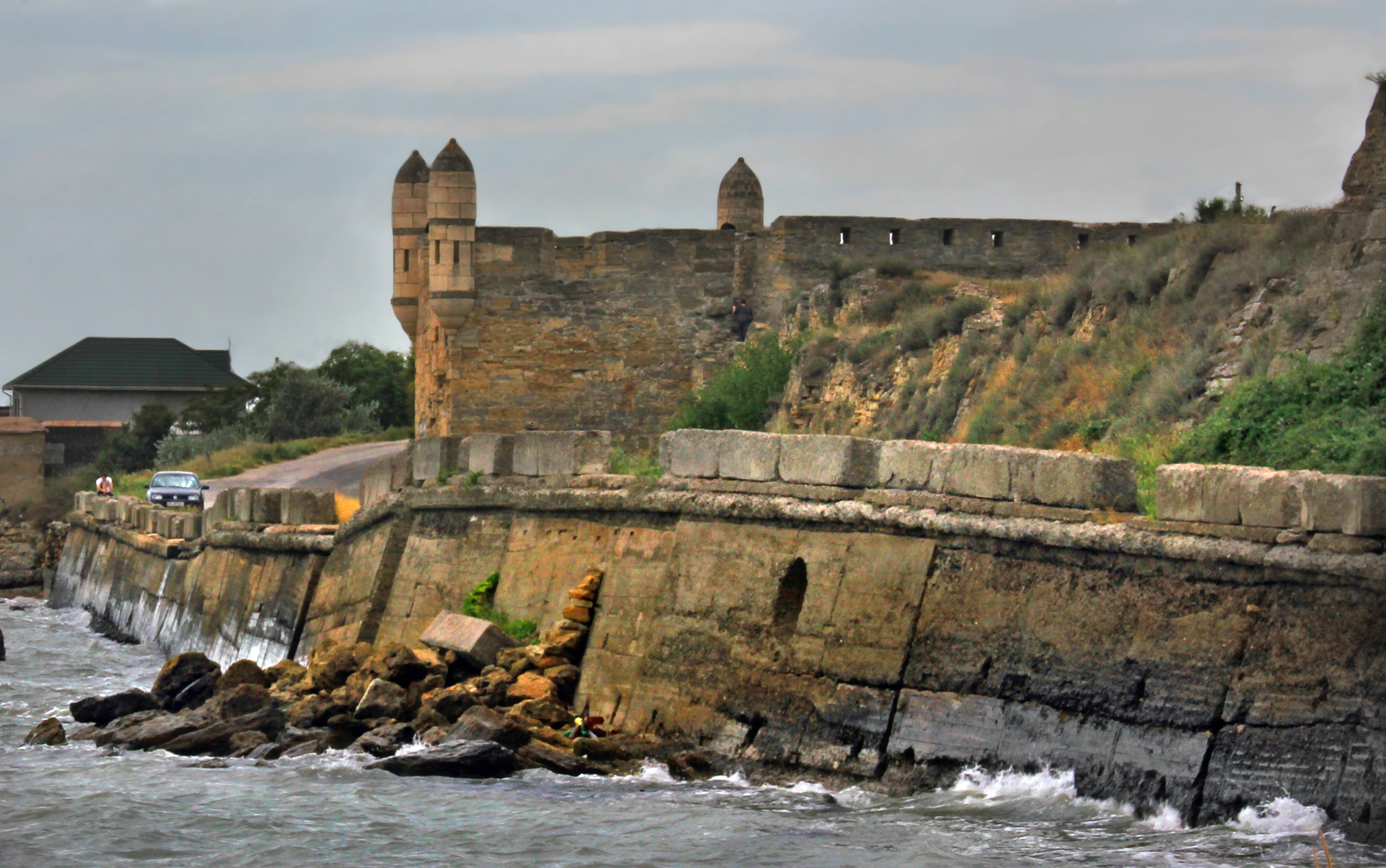 Yenikale fortress in Kerch, Crimea, UkraineEesti: Yeni-Kale (Jenikal). Kindlus Kertši linna lähedal. Krimm, Venemaa